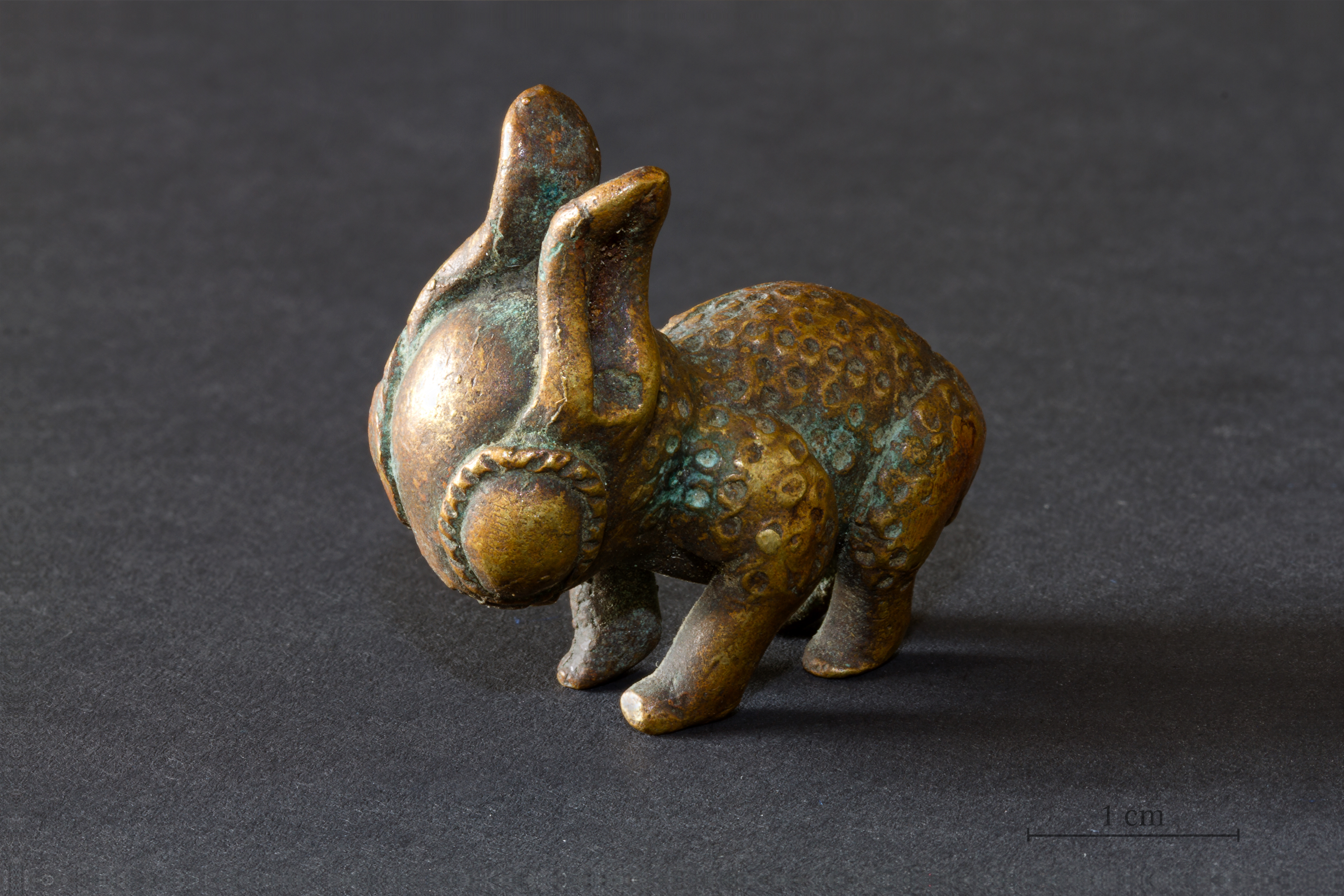 This bunny shaped peson is a multiple of the weight of the seed of Abrus precatorius (0.14 to 0.19 g) which was used as reference for any weighing. Gold was extremely important in the economic and political life of the Akan kingdoms of southern Ghana and Côte d'Ivoire. Until the mid-nineteenth century, gold dust was the primary form of currency in the region. In order to measure precise amounts of gold, an elaborate system of weights, usually made of cast brass, developed by the seventeenth century. Beyond the usual function, the weigh of gold, often refer to political power, reproducing in miniature regalia, and some virtues such as wisdom proverbs generally comment. Today, the national currency has replaced the precious metal and the system weight is no longer relevant since the early twentieth century.